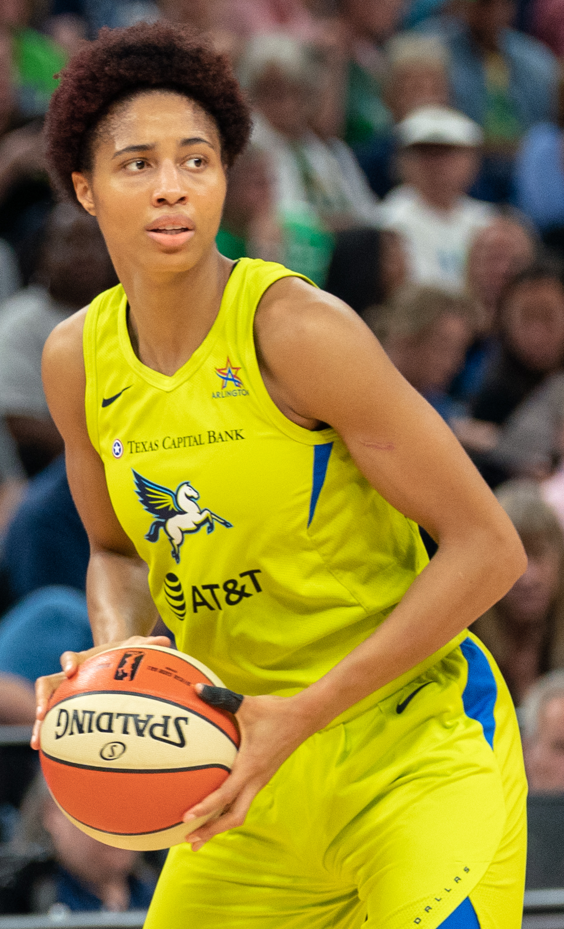 Dallas Wings player Isabelle Harrison in a game against the Minnesota Lynx